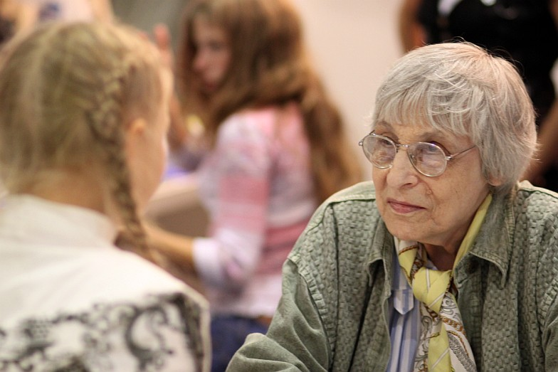 Yunna Morits, Soviet and Russian Poet